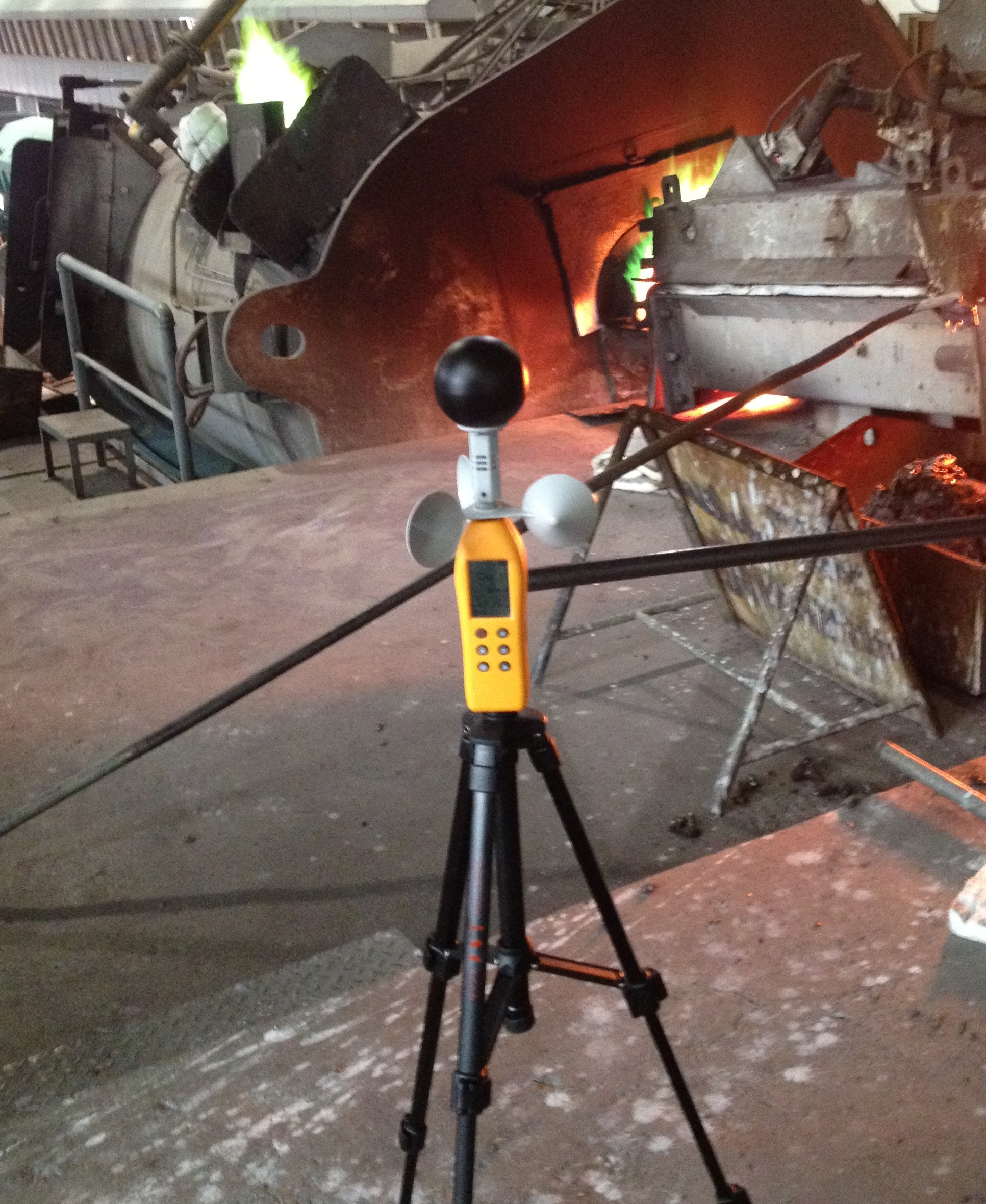 The TWL machine used in the field